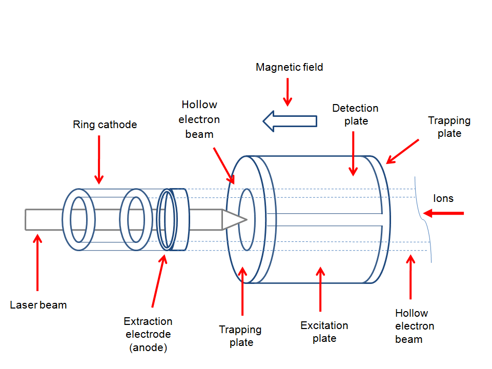 Image is similar to the image in this source RAPID COMMUNICATIONS IN MASS SPECTROMETRY Rapid Commun. Mass Spectrom. 2003; 17: 1759–1768 Published online in Wiley InterScience (